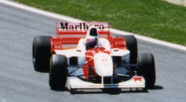 David Coulthard during free practice of 1996 San Marino Grand Prix